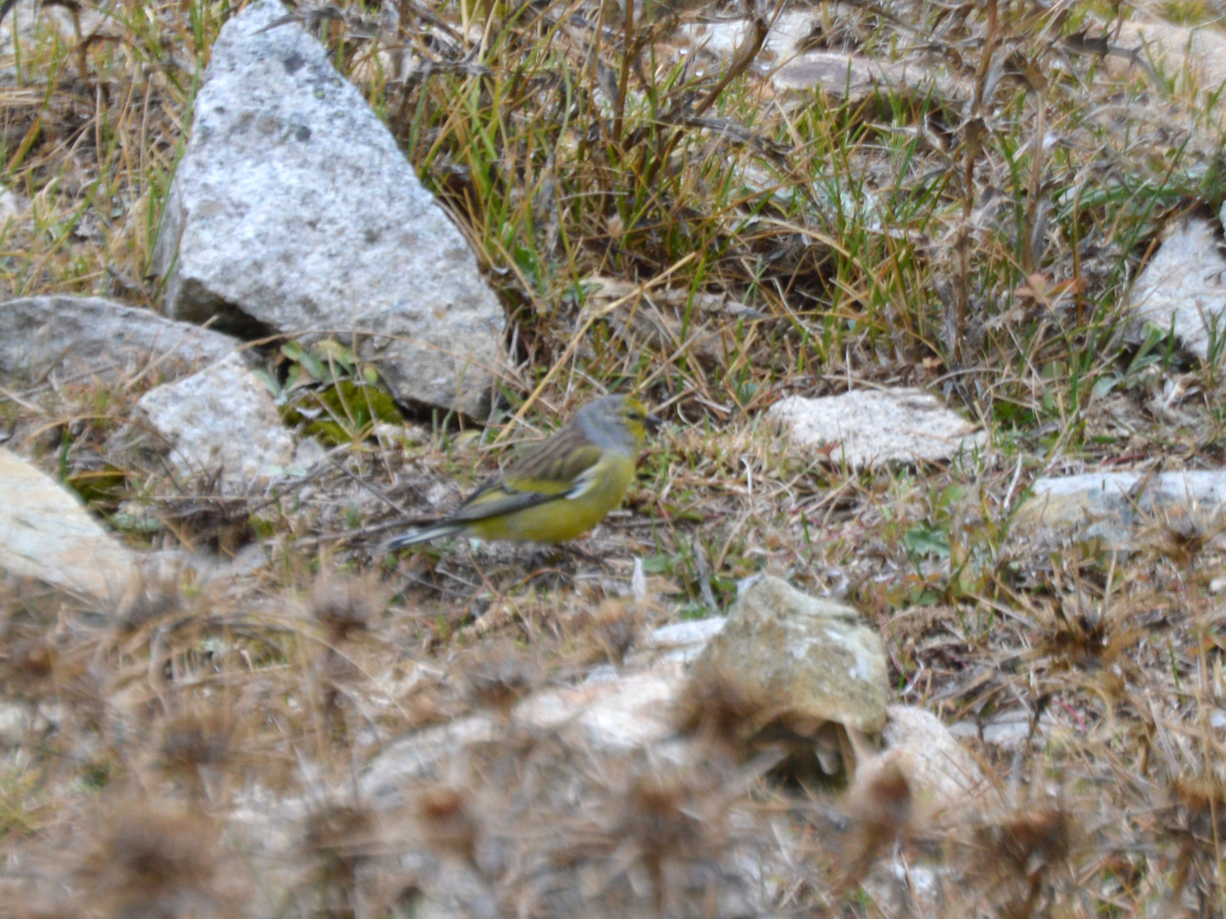 Near Col de Vergio, Corsica, Sept 2014